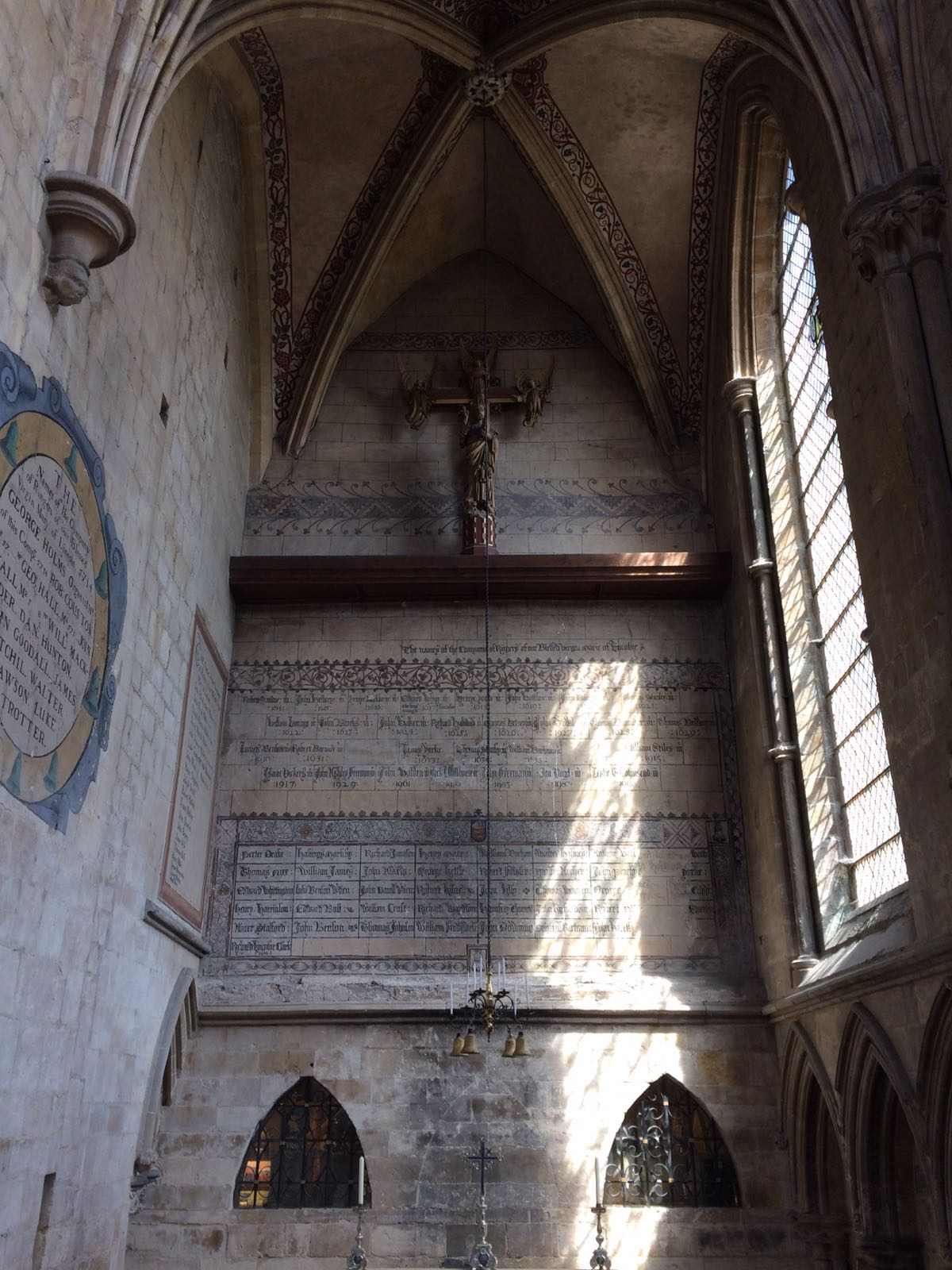 Bell Ringers Chapel Lincoln Cathedral